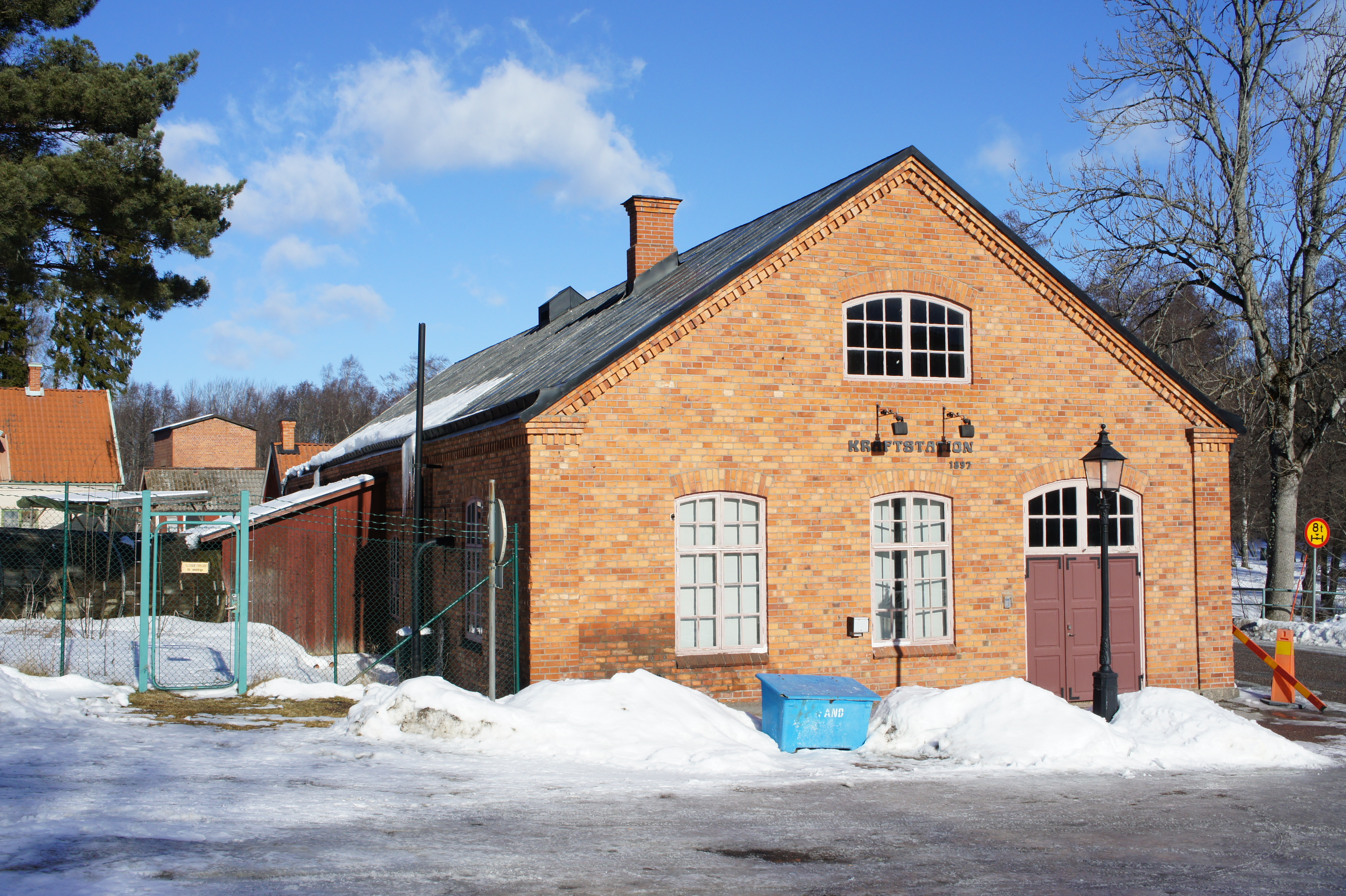 The old power station in Karlslund, Örebro, Sweden